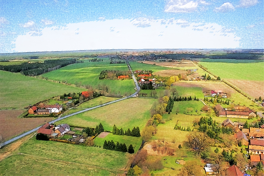 Northern Mulkwitz (Saxony, Germany) with view towards to Rohne (edited to an anonymous view)